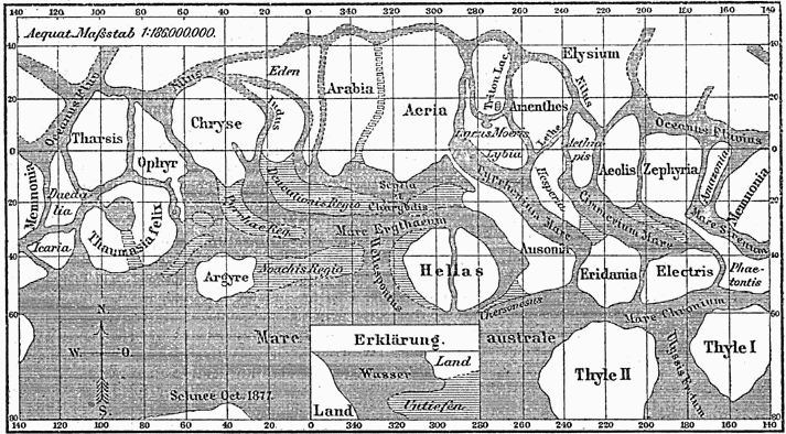 Historical map of planet mars from Giovanni Schiaparelli